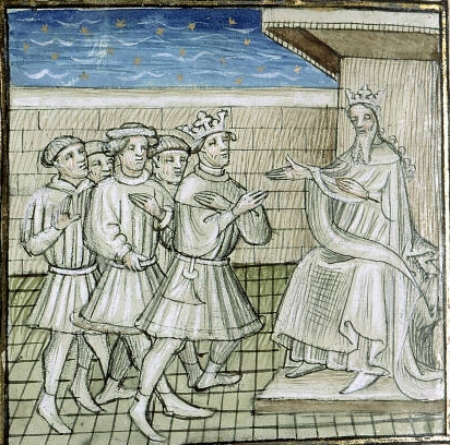 Miniature: Richard I giving (or selling) Cyprus to Guy of Lusignan